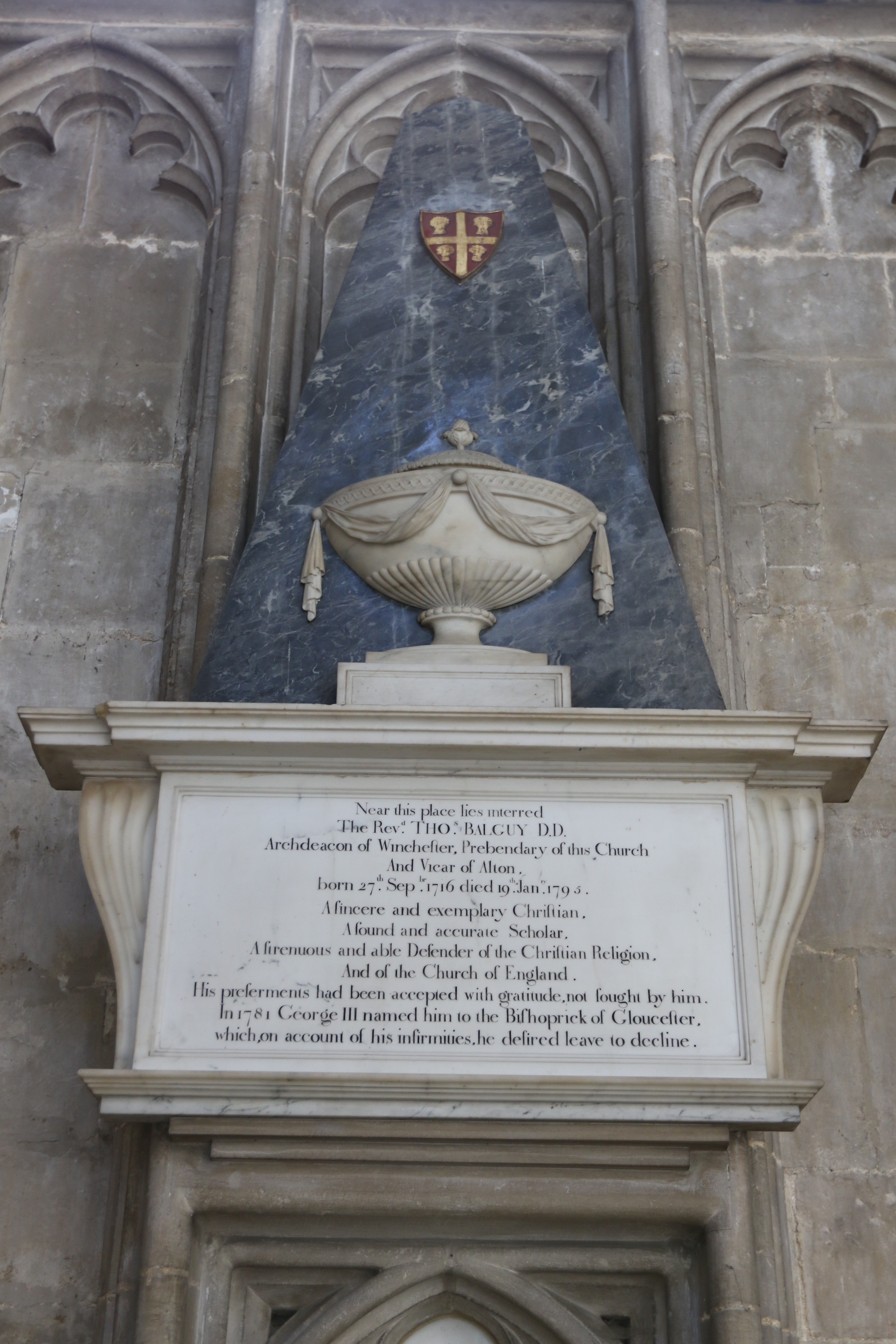 Revd Thomas Balguy DD, Archdeacon of Winchester, Prebendary of Winchester Cathedral, and Vicar of Alton. Born 27 September 1716, died 19 January 1795.